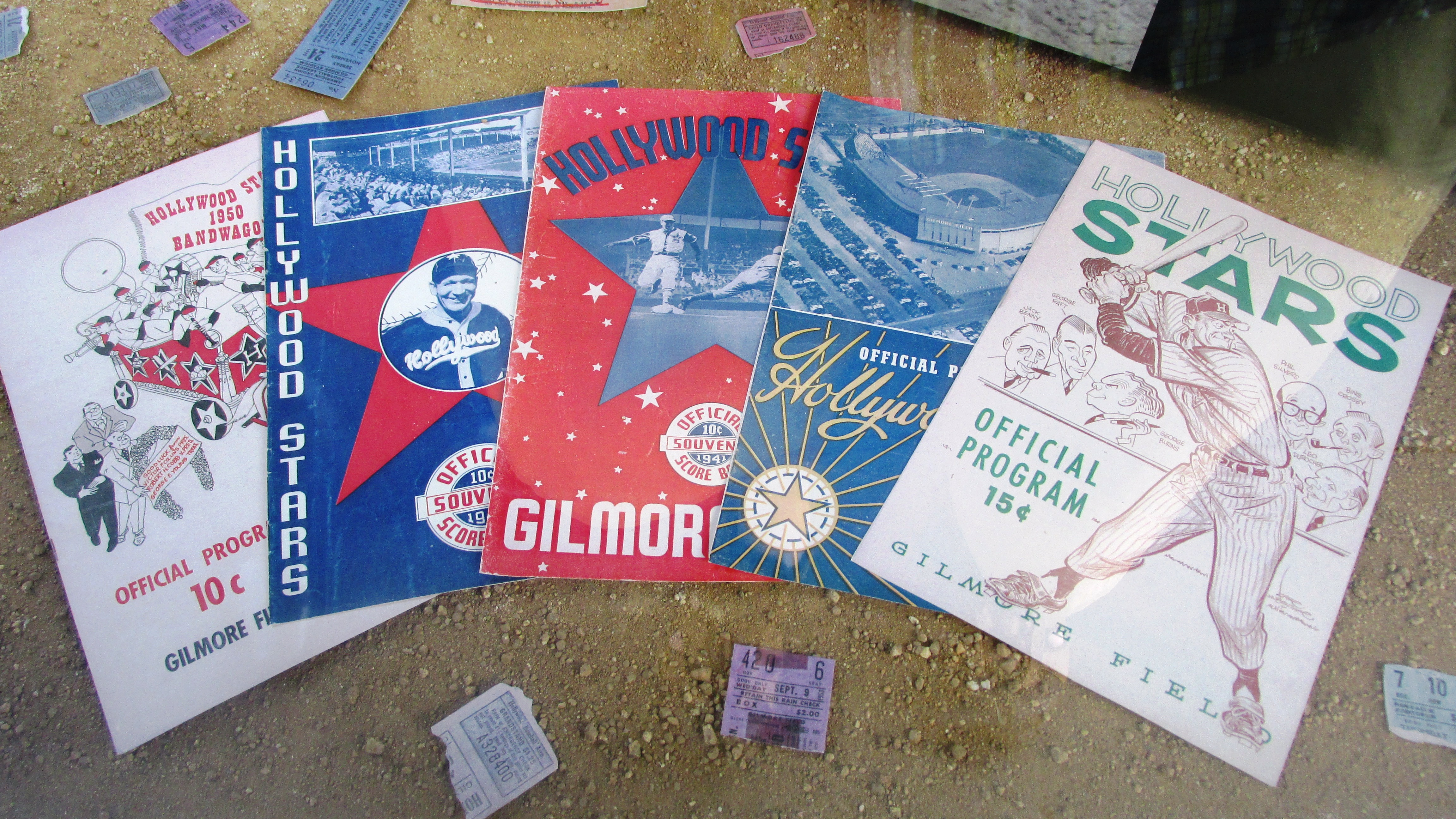 LA Hollywood Stars baseball team memorobilia 1